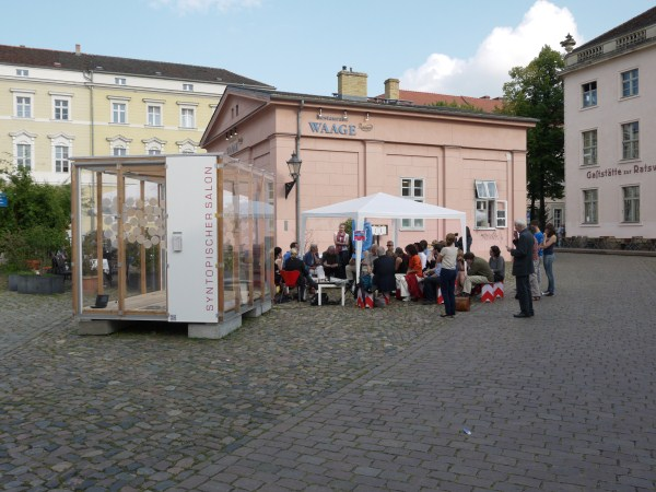 The Syntopic Salon at Neuer Markt Potsdam, Germany, 2012